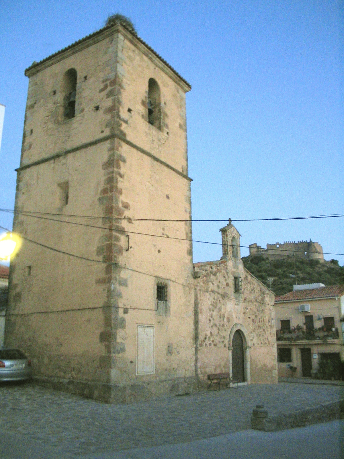 Church of Santa María in Portezuelo (Cáceres, Extremadura, Spain). At the back of it, the Castle of Portezuelo